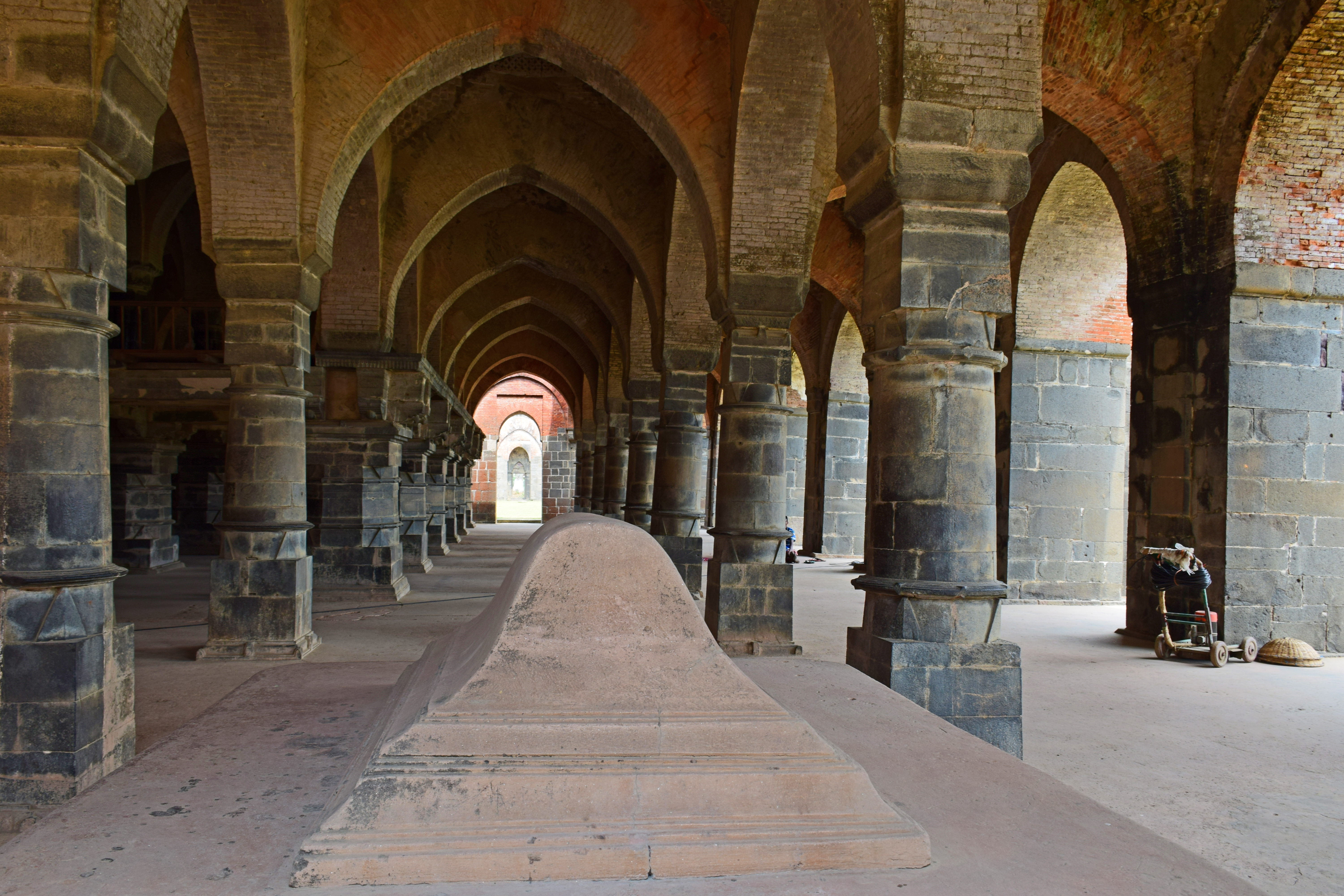 Though it is highly unlikely to have a tomb constructed to the immediate west of a qibla wall, this may have been a makeshift tomb after the patron of this mosque Sikandar Shah was killed, This chamber with its raised platform (known as Badshah ka Takht) and several pillars does not seem to be originally meant to serve as mausoleum of the patron himself.